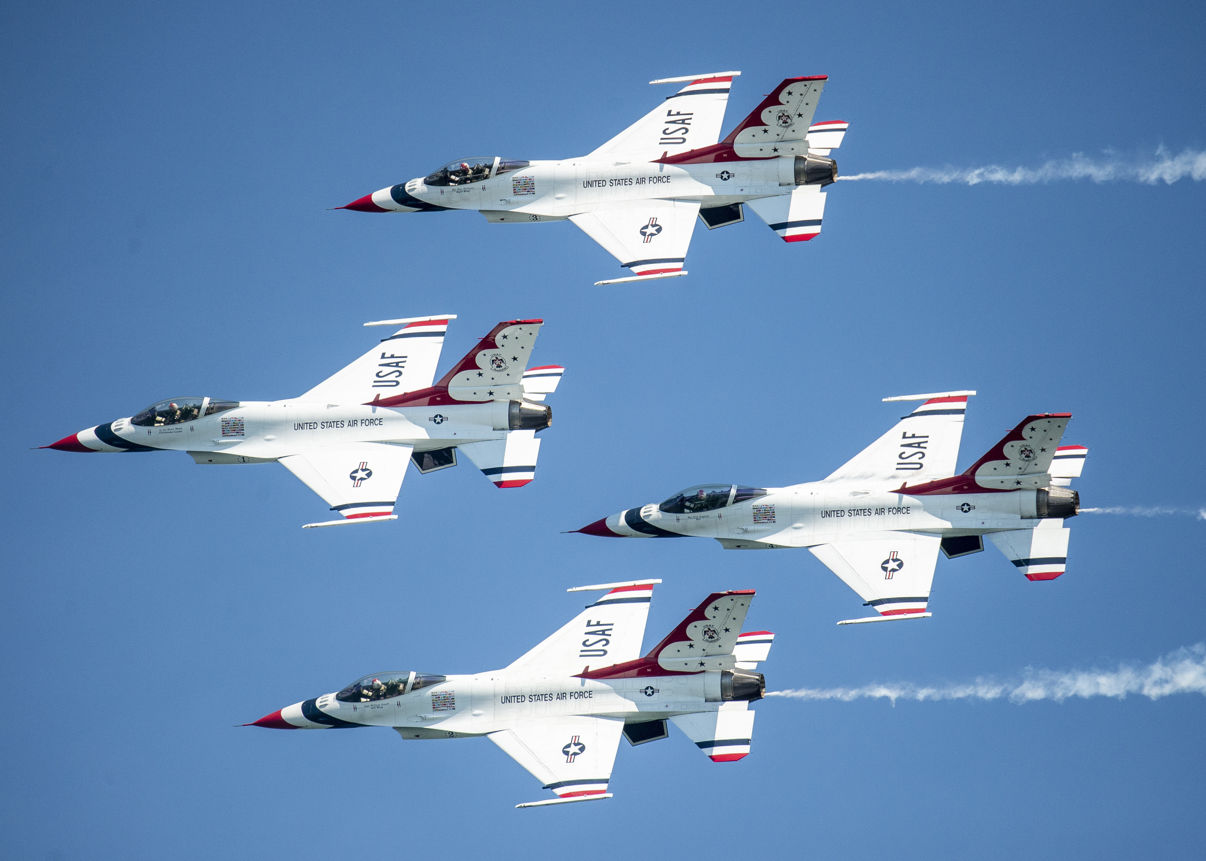 Since 1953, the Thunderbirds team has served as America’s premier air demonstration squadron, entrusted with the vital mission to recruit, retain and inspire past, present and future Airmen.